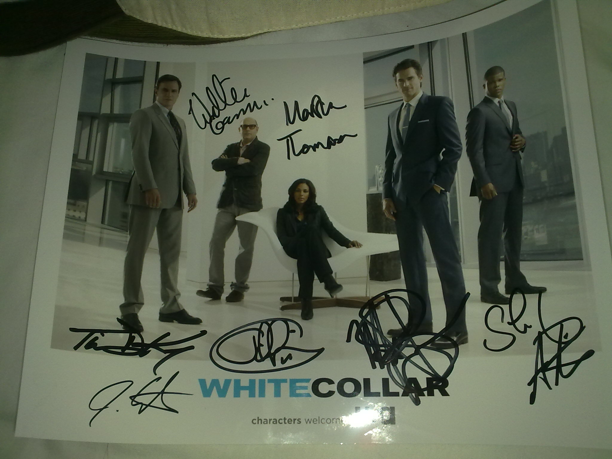 White Collar autographs